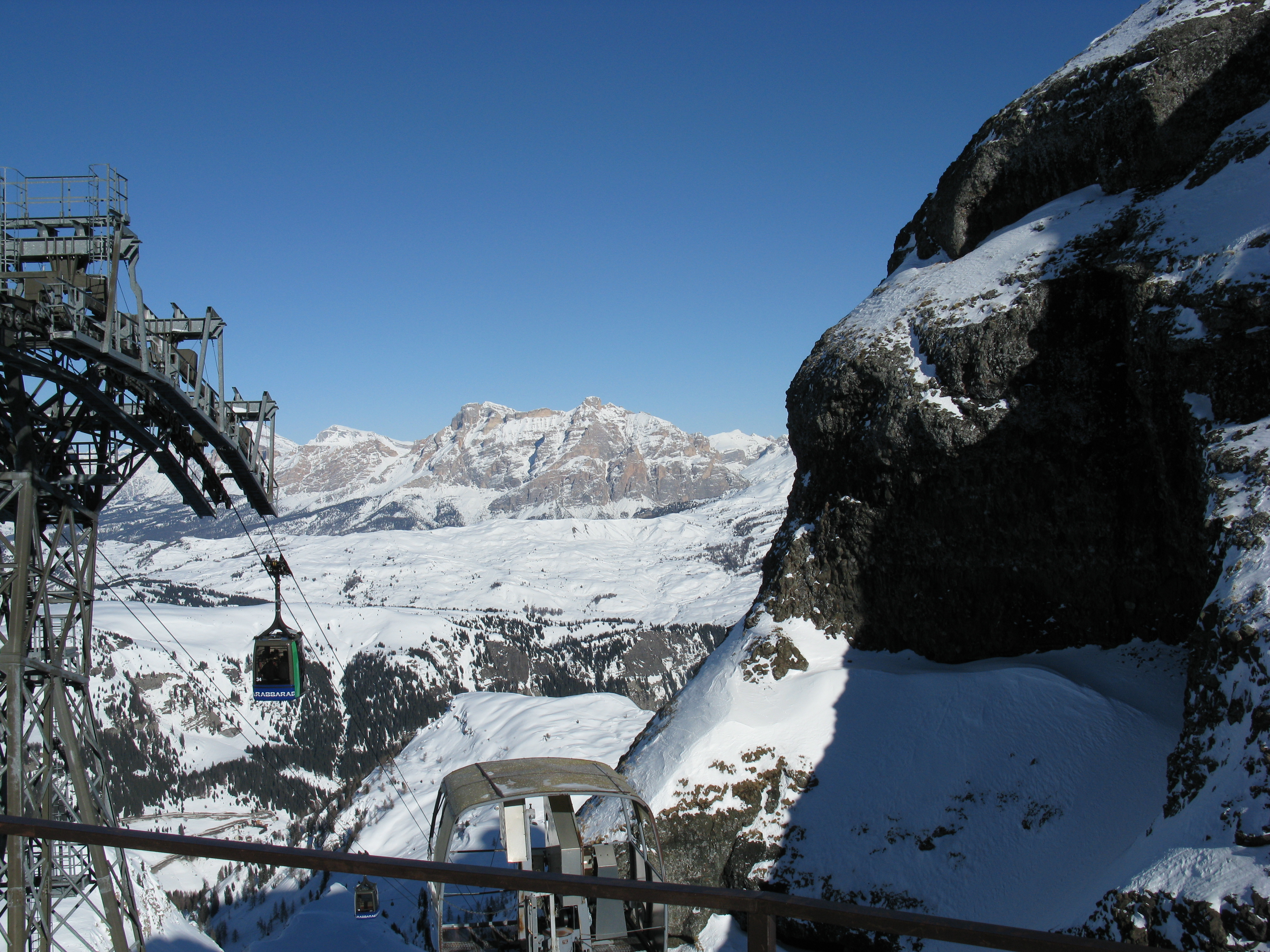 View from Arabba